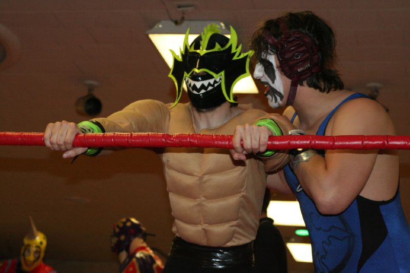 Sea Donsters (Hydra and Tim Donst) on May 24, 2008, at a Chikara show.